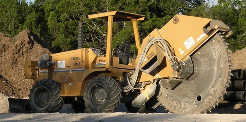 Vermeer V8550 Trencher Rockwheel